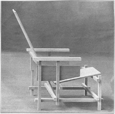 Anonymous. Armchair. c 1918 (?). Photo.